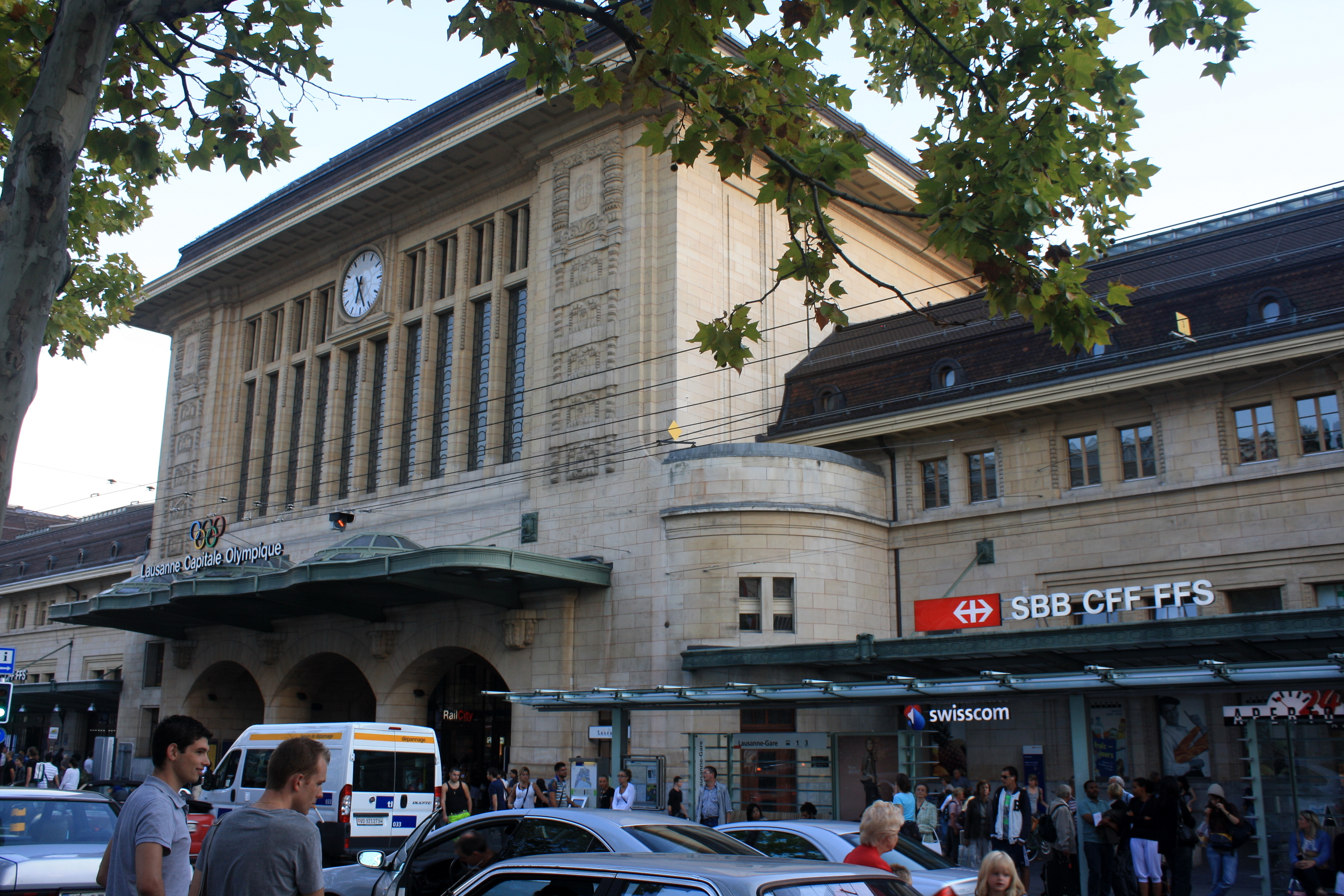 Train station (Gare de Lausanne), Lausanne, Swtizerland